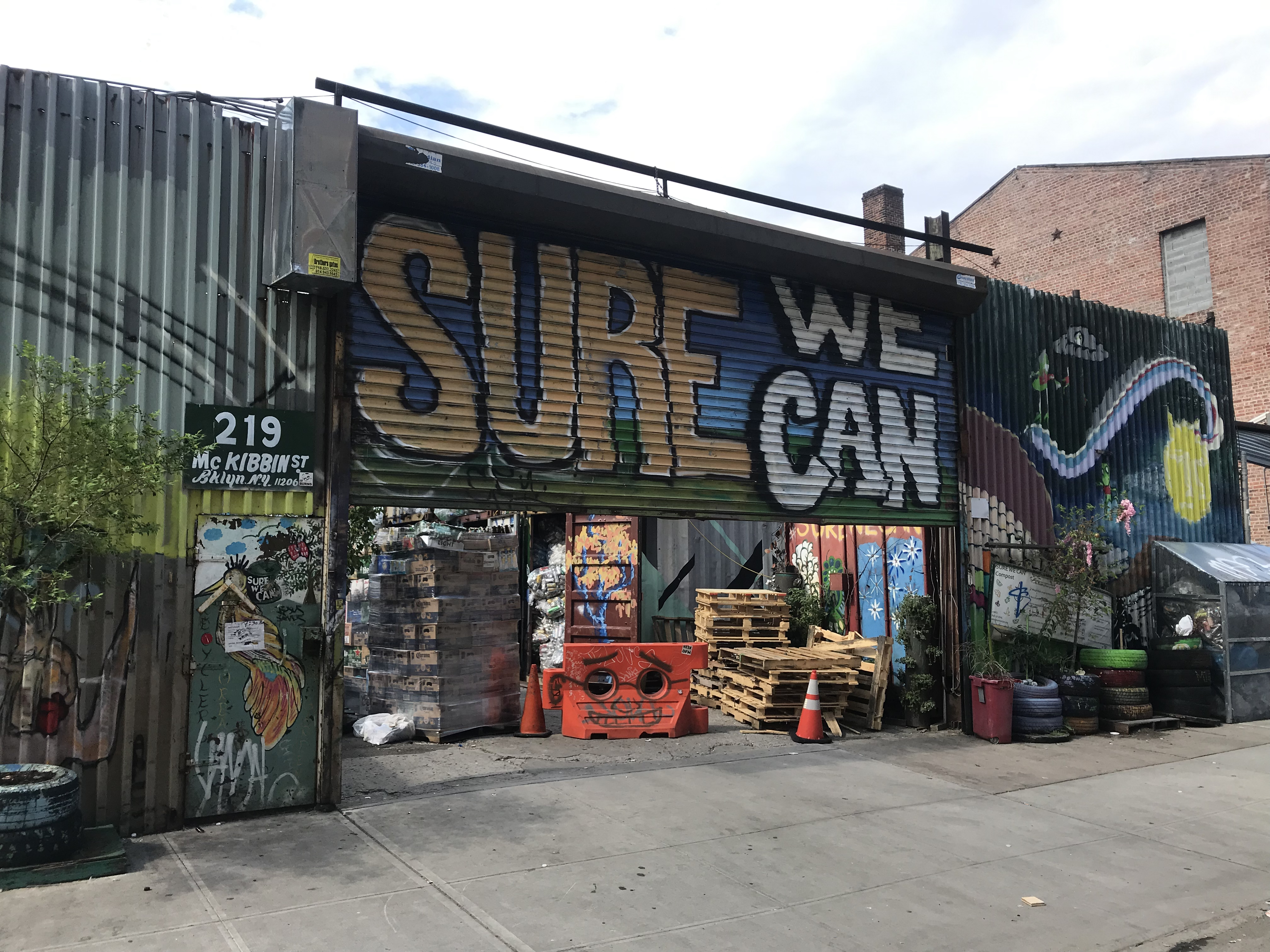 Stacks of bottles and cans can be seen in the entrance to Sure We Can, a non-profit redemption center based in Brooklyn, New York